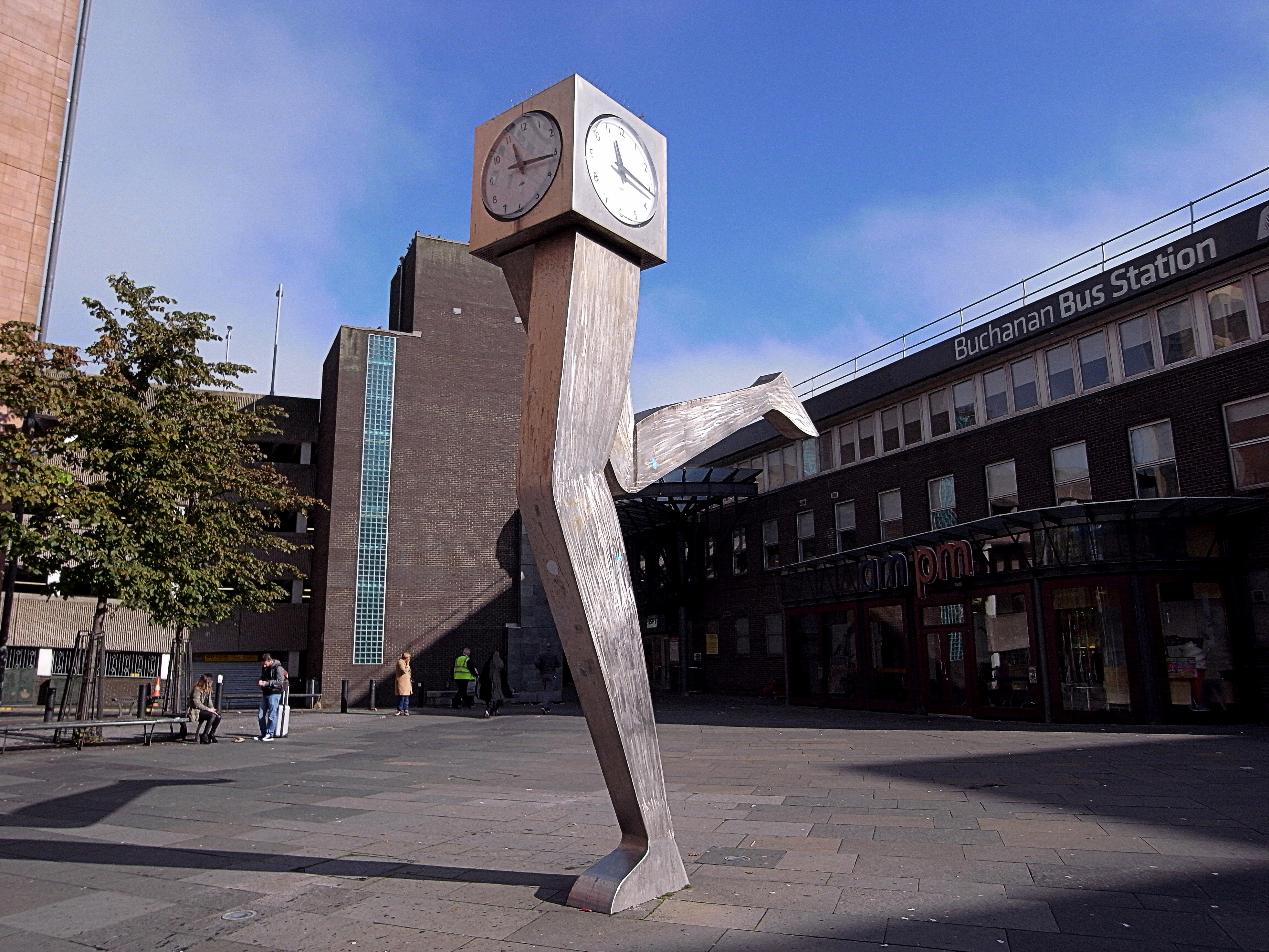 Glasgow. George Wyllie (1921-2012), The Clyde Clock (1999-2000). Killermont Street, at entrance to Buchanan bus station. Clockmakers: William Potts & Sons.